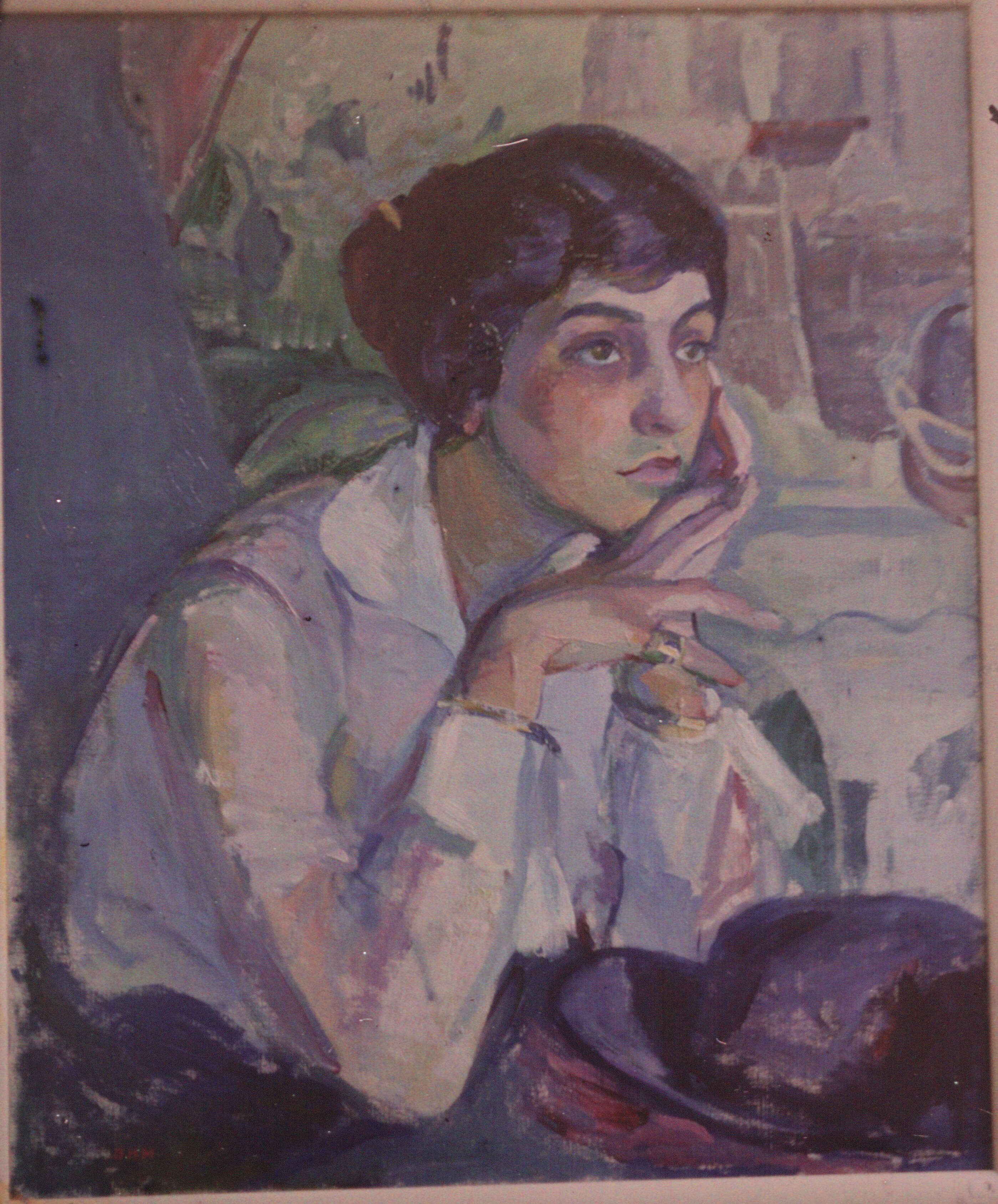 Portrait of Mrs. Eduard J. Steichen, Clara Smith Steichen